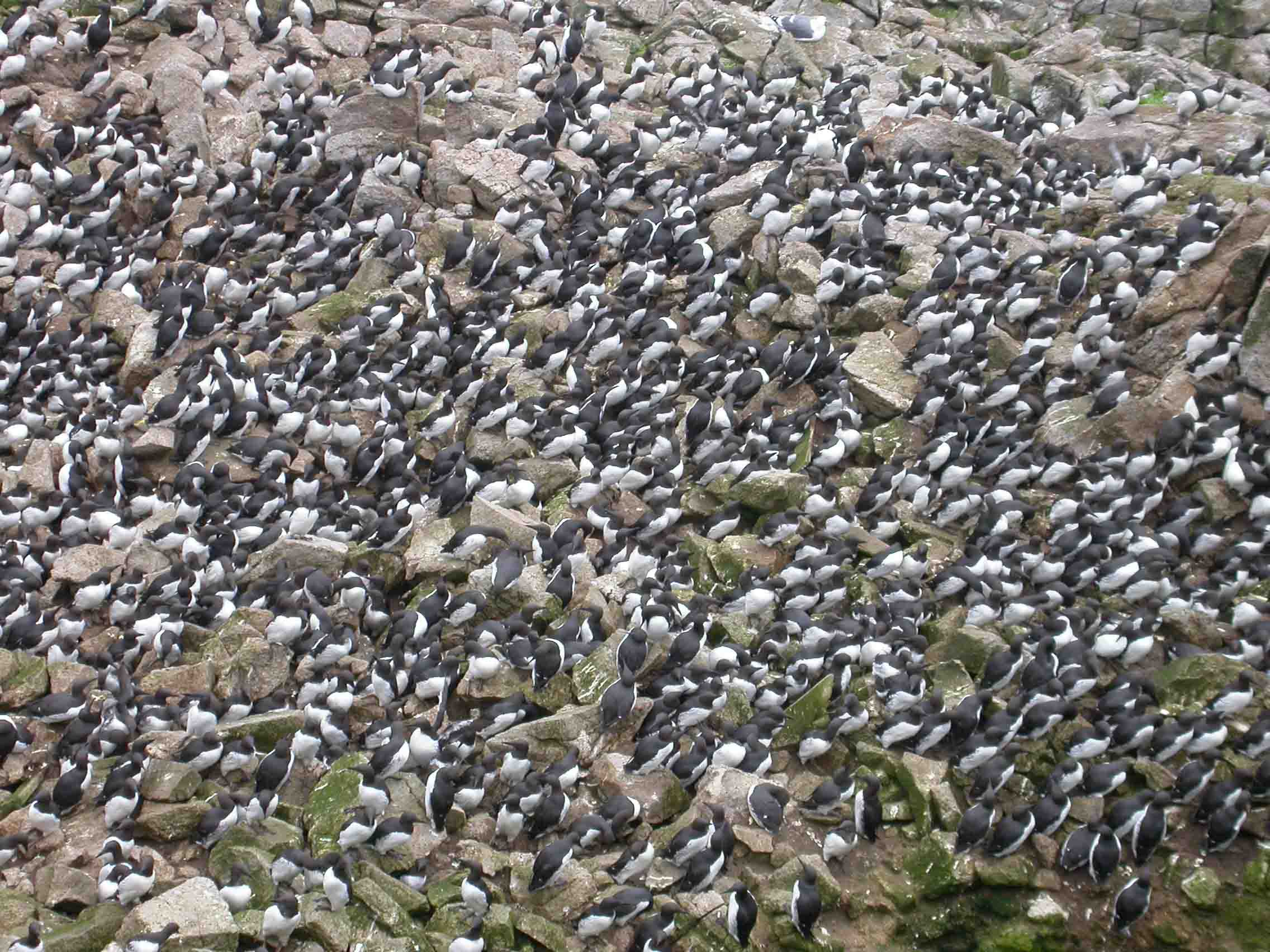 Common Murre Uria aalge colony on the Farallon Islands.